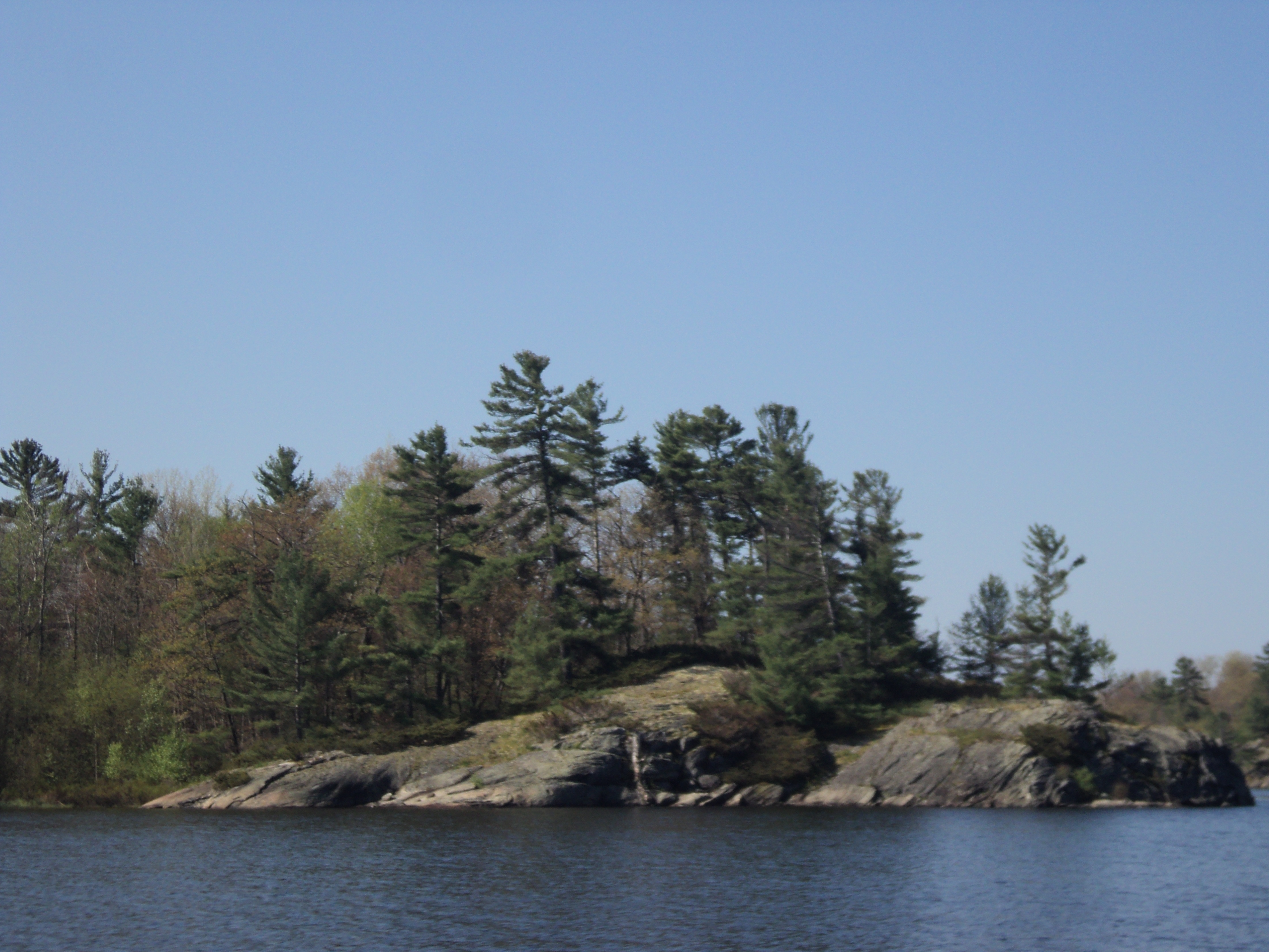 Various trees and islands around Georgian Bay, taken from a boat on the water, not far from Mactier, Ontario. This is an image of the Biosphere Reserve: Georgian Bay Littoral